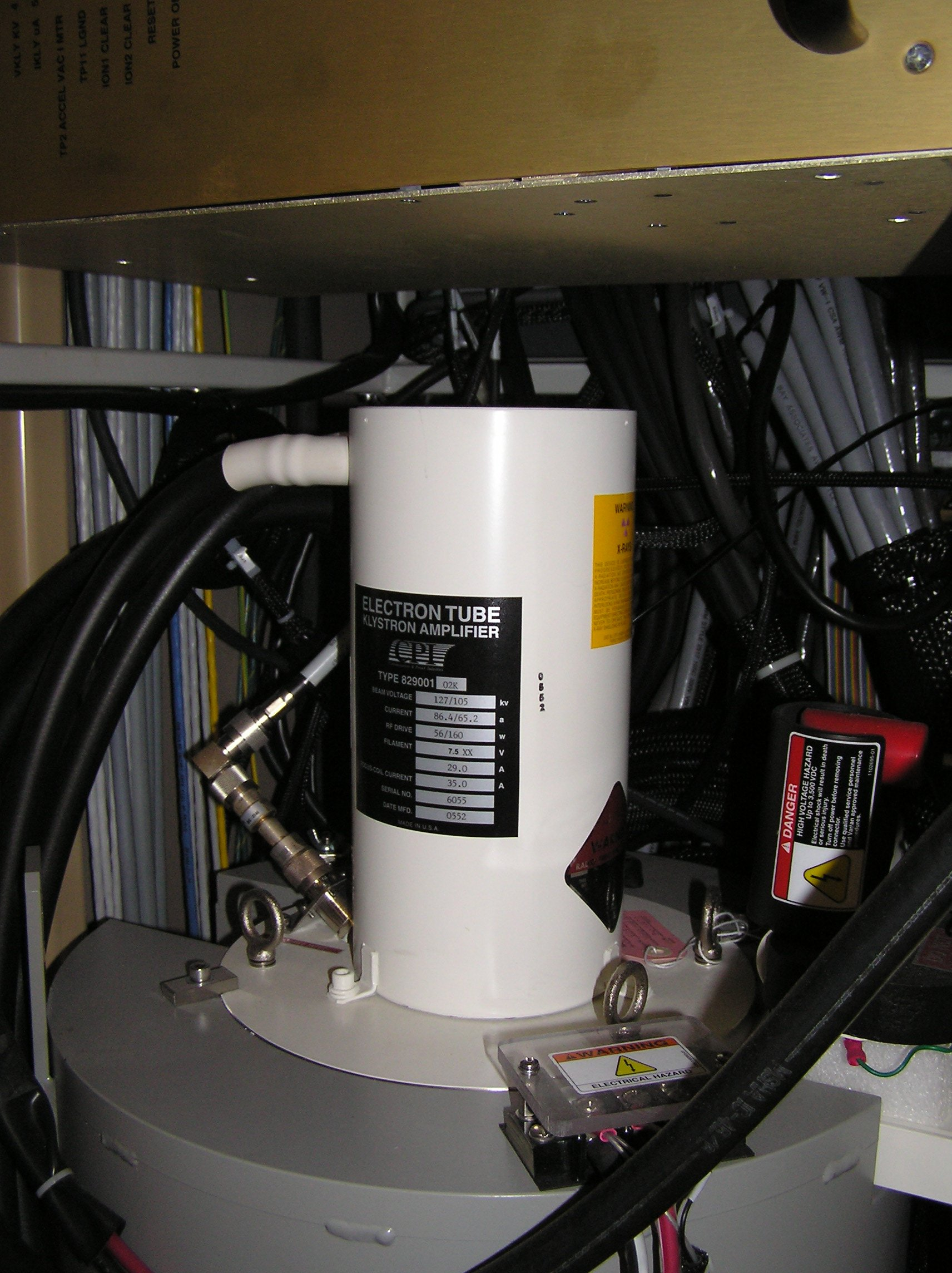 Klystron tube in a linear accelerator. FN Motol, Prague, 2006-12-01